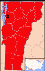 The Catholic Diocese of Burlington encompasses the entire state of Vermont, USA.